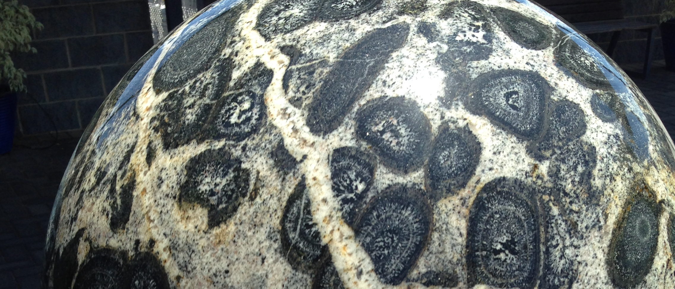 Located at Western Australian Mines Department Core Library, Carlisle Western Australia, detail of the floating stone sphere sourced from Boogardie Station (Mount Magnet) Western Australia